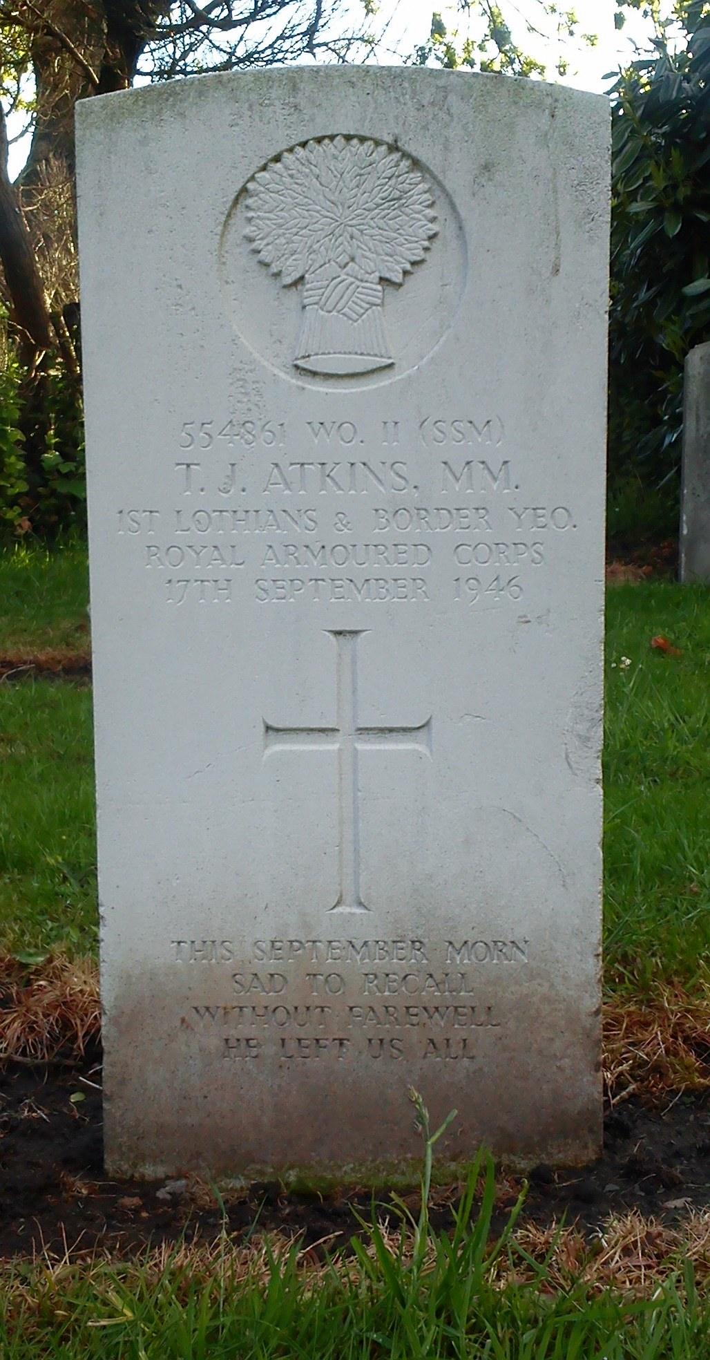 Commonwealth War Graves Commission headstone in Bromsgrove Cemetery, Worcestershire, for W/O II Thomas Atkins, MM, Lothians and Border Yeomanry, who died on 17 September 1946